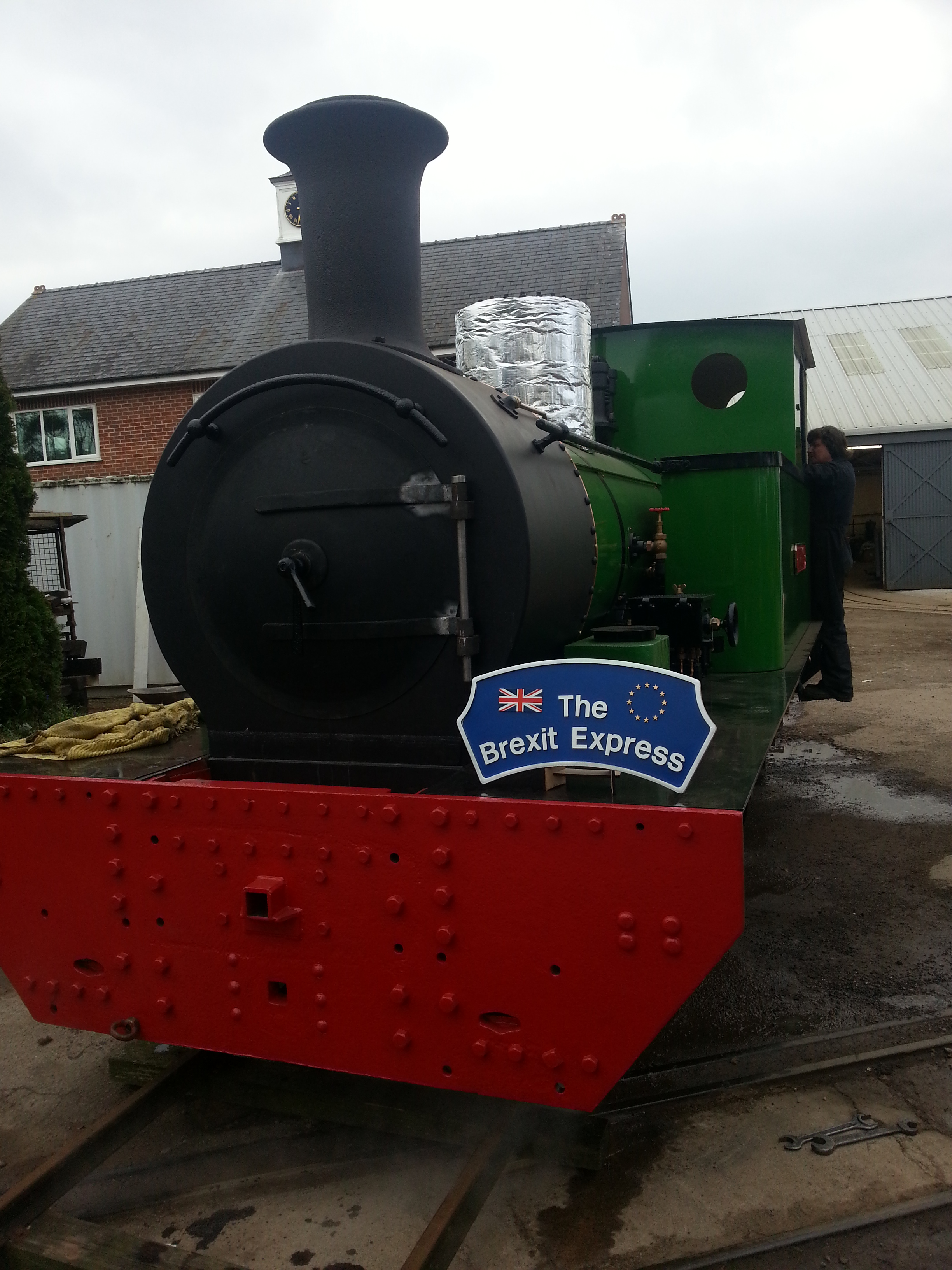 First steaming day for Nancy, at Alan Keef's workshop, with the Brexit Express headboard.